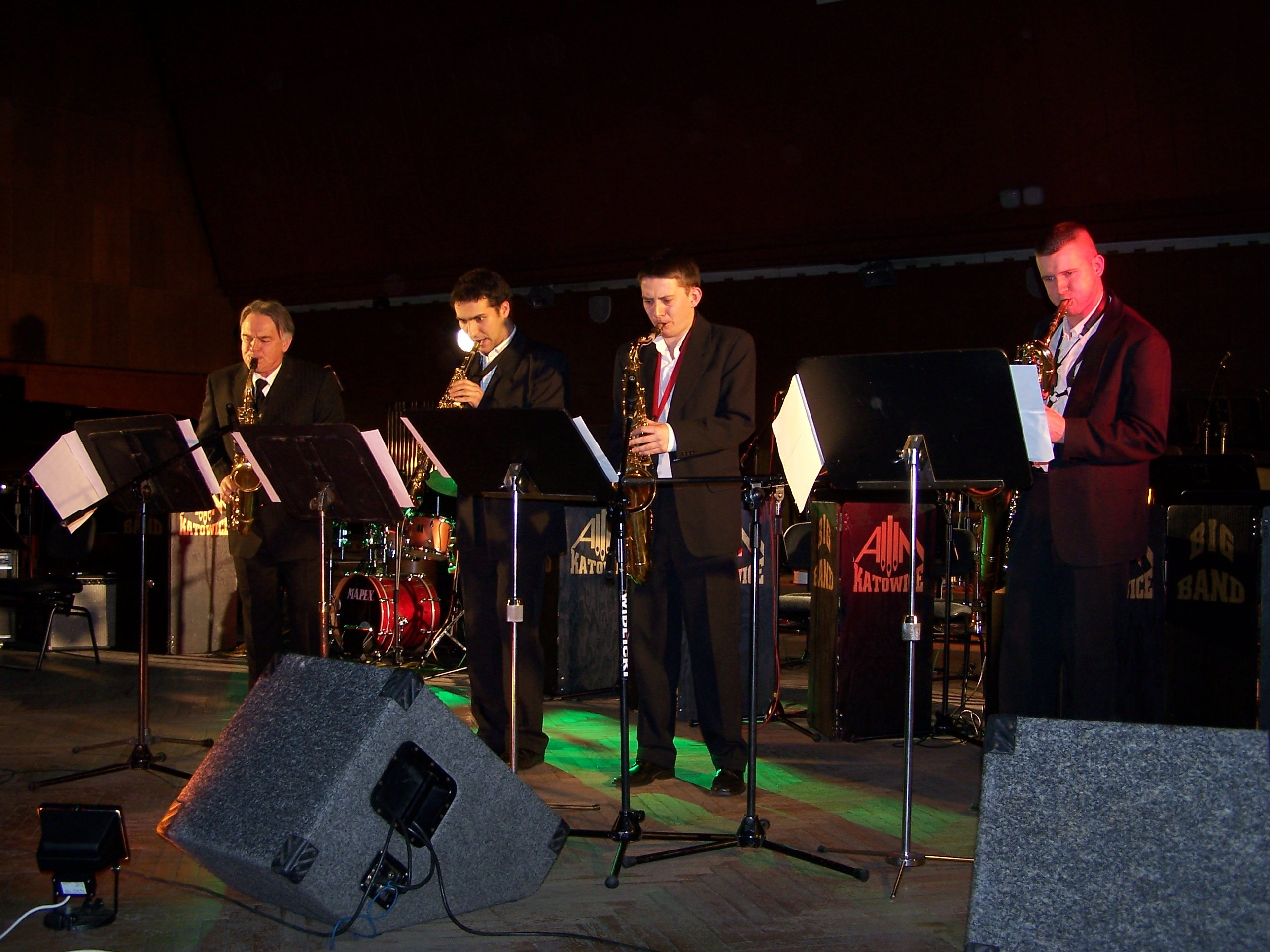 Saxophone Quartet. First from the left Jerzy Jarosik - Director of Institute of Jazz of Academy of Music in Katowice. Photo taken on 1st Silesian Jazz Festiwal.